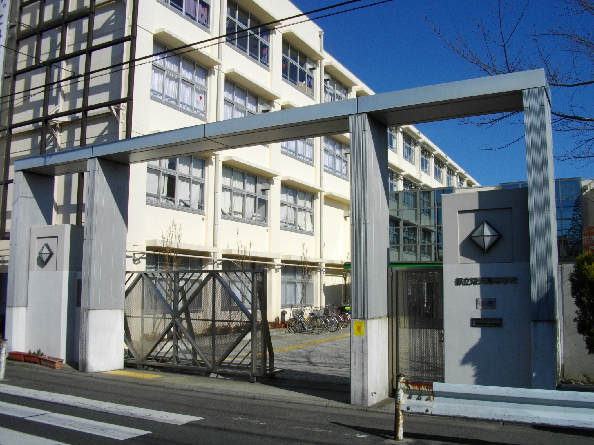 Tokyo Metropolitan Fukasawa High School